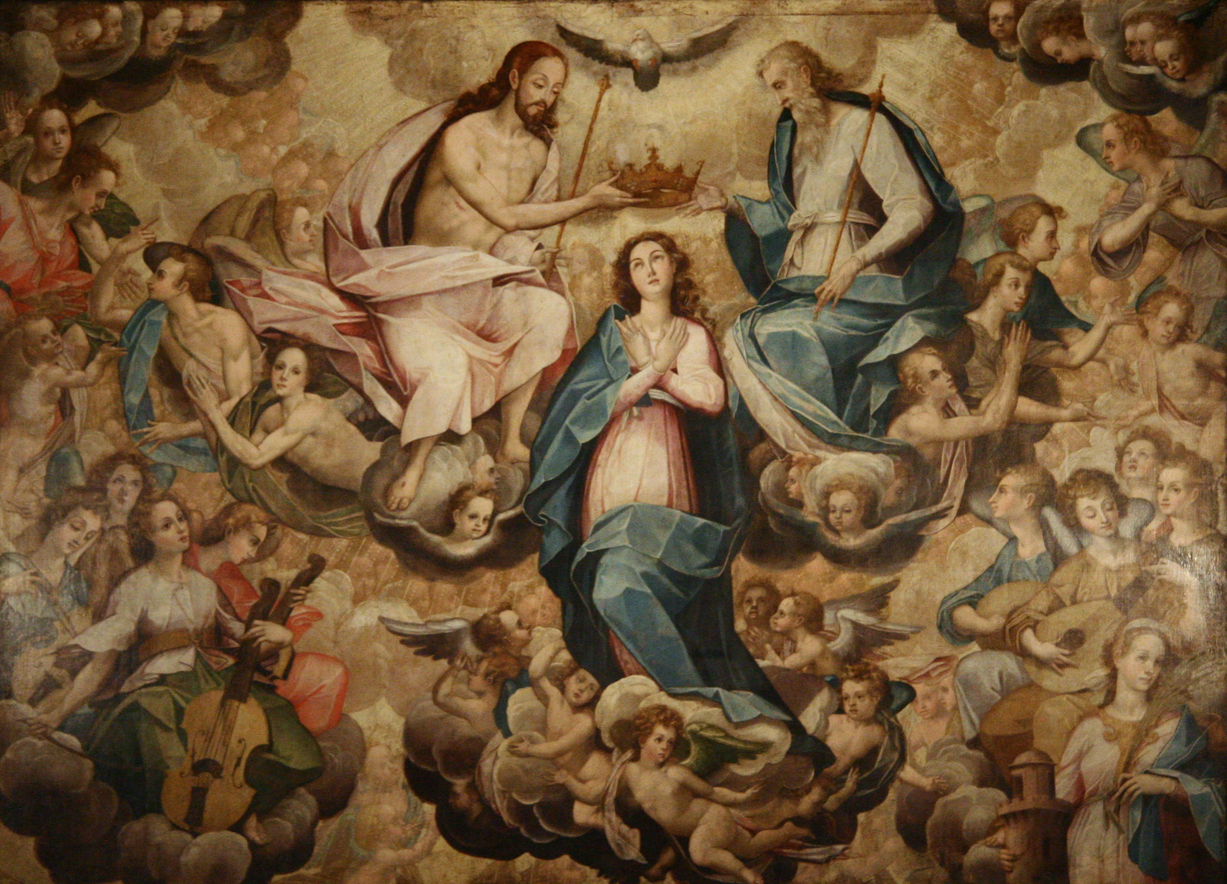 San Pedro de Lima